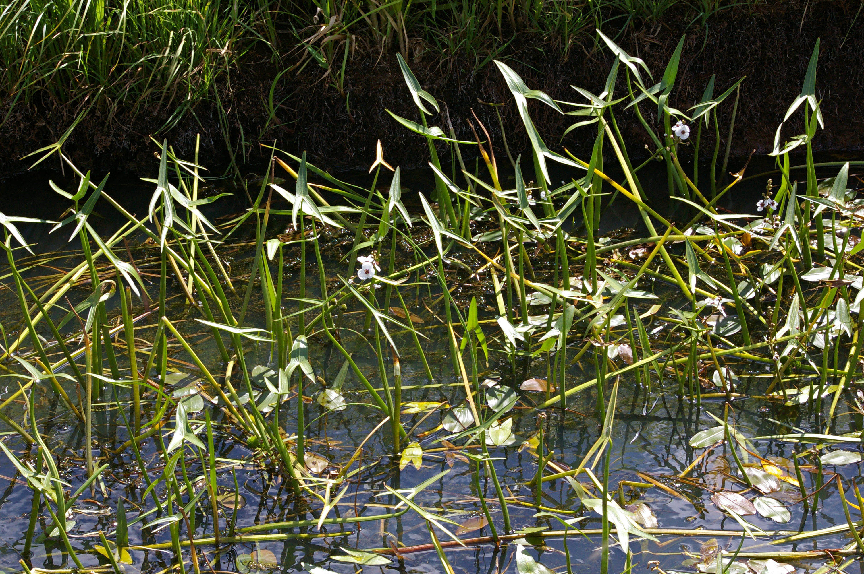 Aspect of the waterplant Sagittaria sagittifolia (Alismataceae) in a ditch.